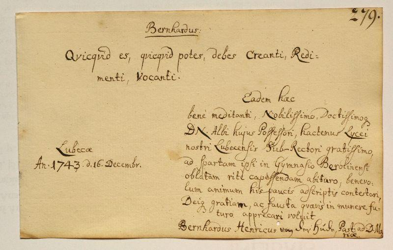 Inscription of Pastor Bernhard Heinrich von der Hude (1681-1750) in Album amicorum of Johann Friedrich Behrendt on the occasion of his being called to Berlin 1743 December 16. The inscription quotes Bernardus Claravallensis, Sermo XIX